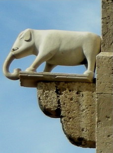 Elephante sculpture in to Tower of Elephant, Cagliari